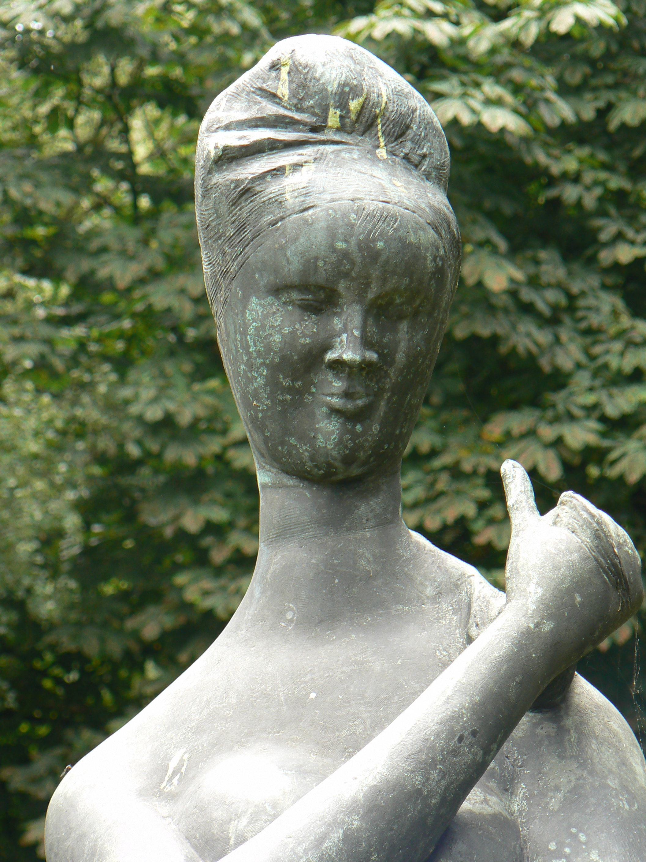 Collection: Skulpturenmuseum Glaskasten Location: City Center Marl/Germany Sculpture: Die große Badende Nr. 1 (1956) Sculptor: Emilio Greco